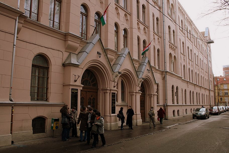 Faculty of Arts Gate III. Szeged